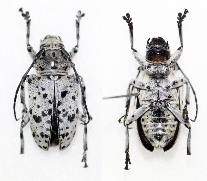 Thomson,1858 Sex: Female Data: 11-2013 - Ebogo - Cameroon Size: ?